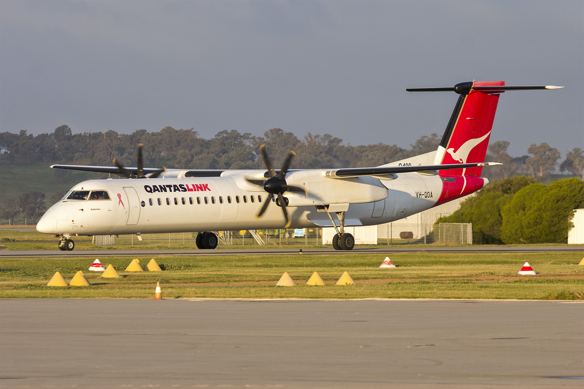 QantasLink (VH-QOA) Bombardier DHC-8-402Q taxiing at Wagga Wagga Airport.